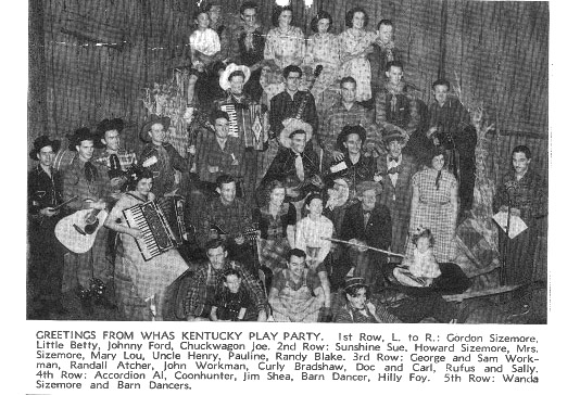 The cast members and performers of the WHAS Old Kentucky Barn Dance